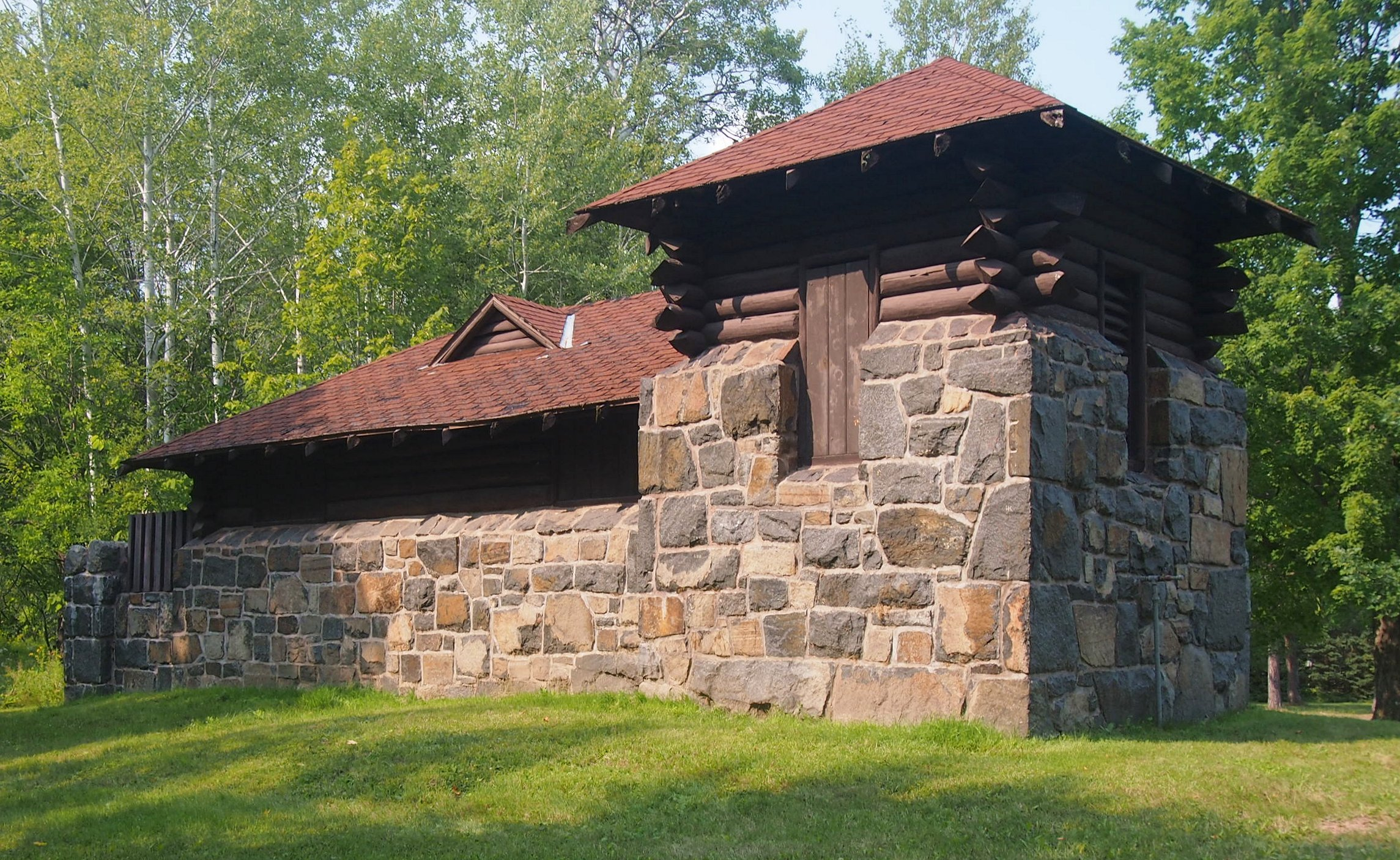 Water tower/latrine, Oldenburg Point Picnic Area, Jay Cooke State Park, Minnesota, USA. Viewed from the south-southeast.